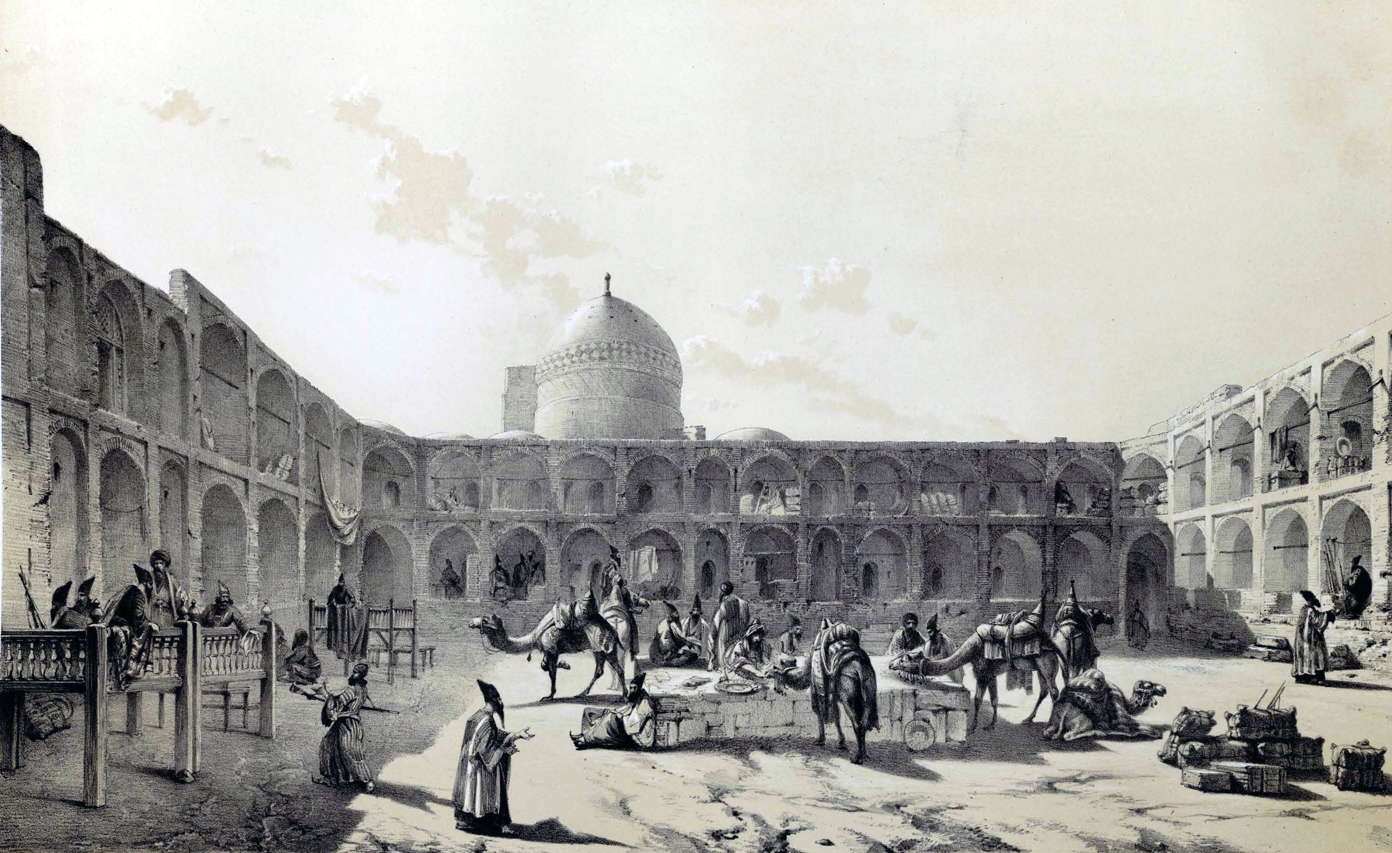 Write here